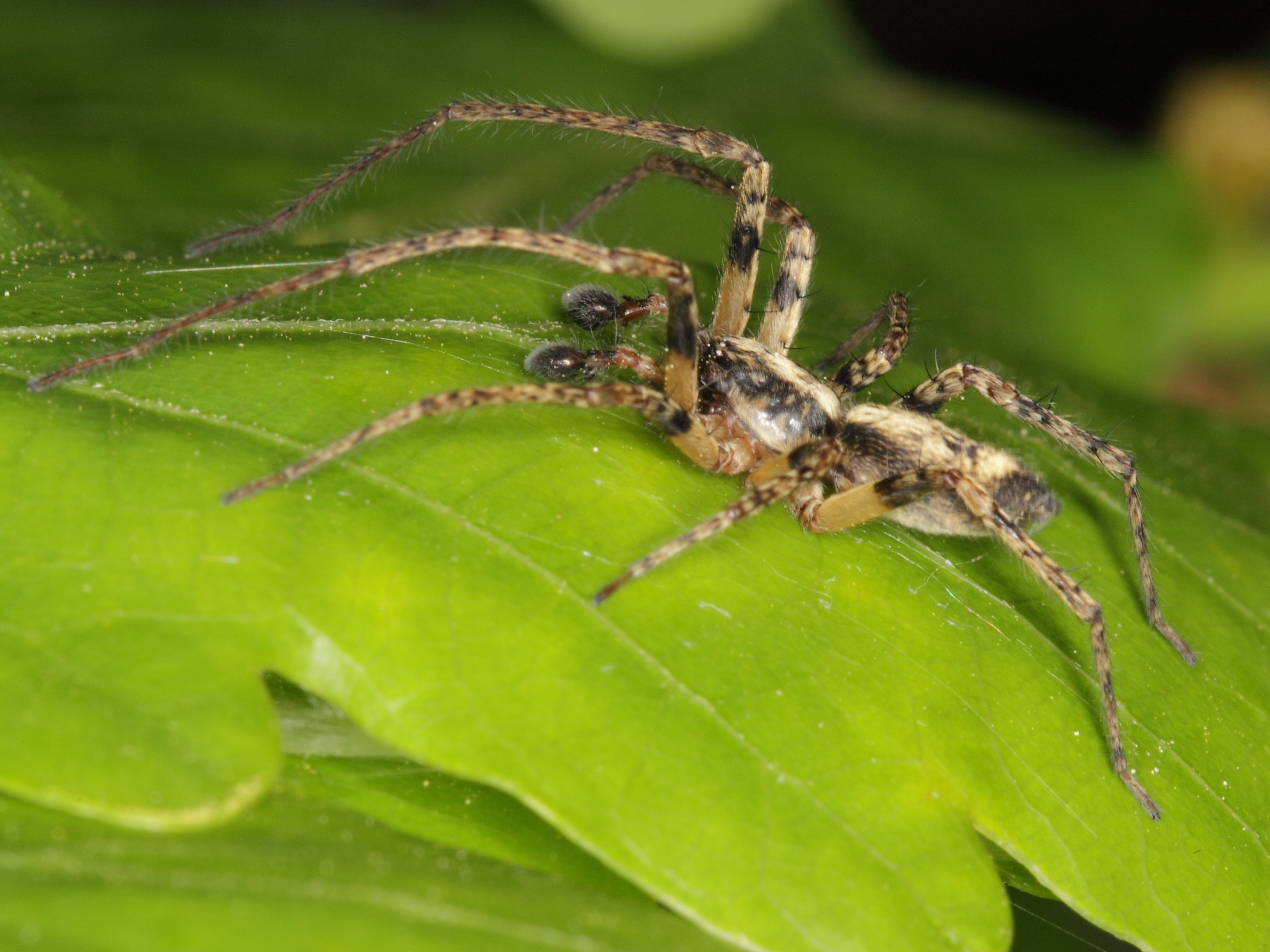 Phylum: Arthropoda LATREILLE, 1829 (arthropods, Gliederfüßer) Subphylum: Chelicerata Class: Arachnida CUVIER, 1812 (arachnids, Spinnentiere) Subclass: Micrura Infraclass: Megoperculata Order: Araneae CLERCK, 1757 (spiders) Suborder: Araneomorphae (Webspinnen) Superfamily: Dictynoidea (sac spiders, Sackspinnen) Family: Anyphaenidae BERTKAU, 1878 Subfamily: Anyphaeninae BERTKAU, 1878 Genus: Anyphaena SUNDEVALL, 1833 Anyphaena accentuata WALCKENAER, 1802, ♂ juvenil (Vierfleck-Zartspinne) [det. „Gerdt Gingko“, 2013, based on this photo] Germany, Brandenburg, vic. Königs-Wusterhausen: Senzig - Forst Dubrow, 15.05.2013 IMG_3603